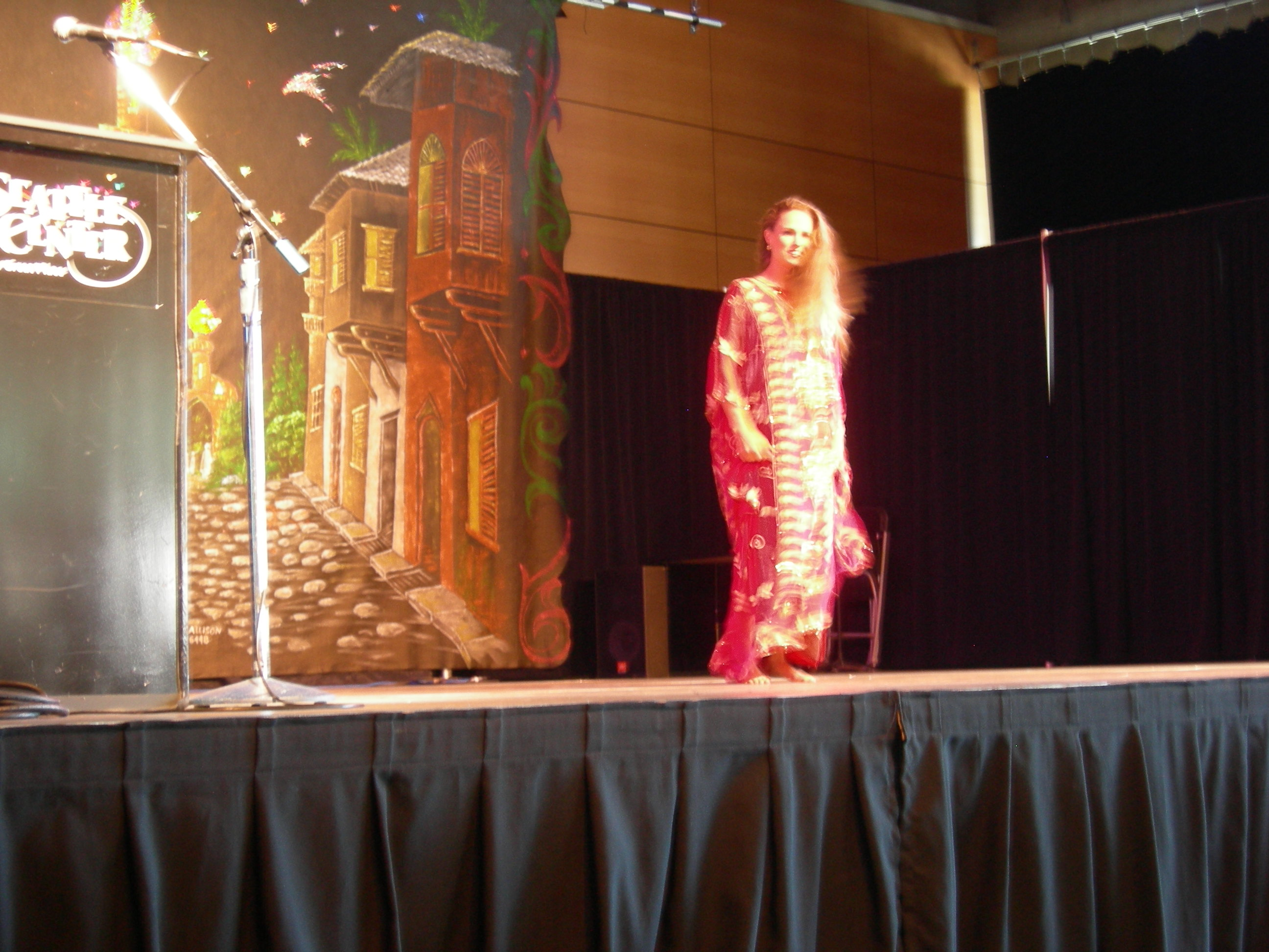 Arab Festival: folkloric dance, on the festival's Mahrajan Stage, Fisher Pavilion, Seattle Center, Seattle, Washington.